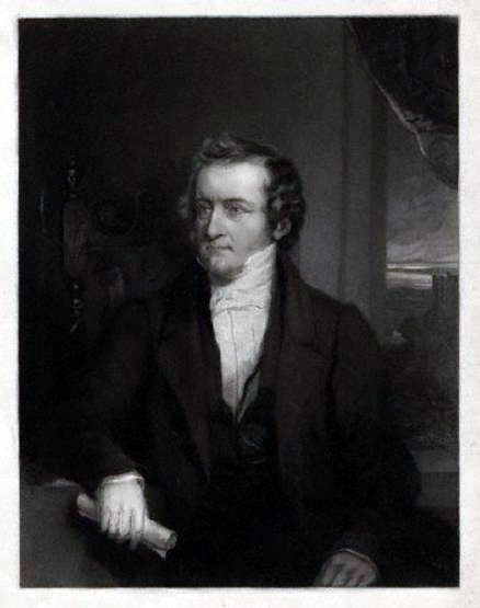 Depiction of English antiquarian James Raine